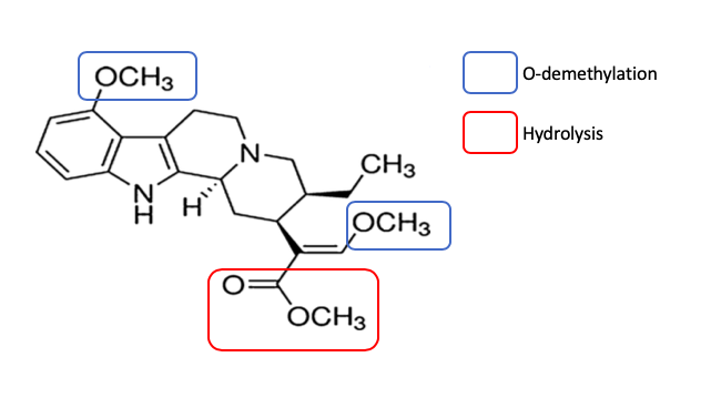 Hydrolysis and o-demethylation of mitragynine during the initial steps of phase I metabolism